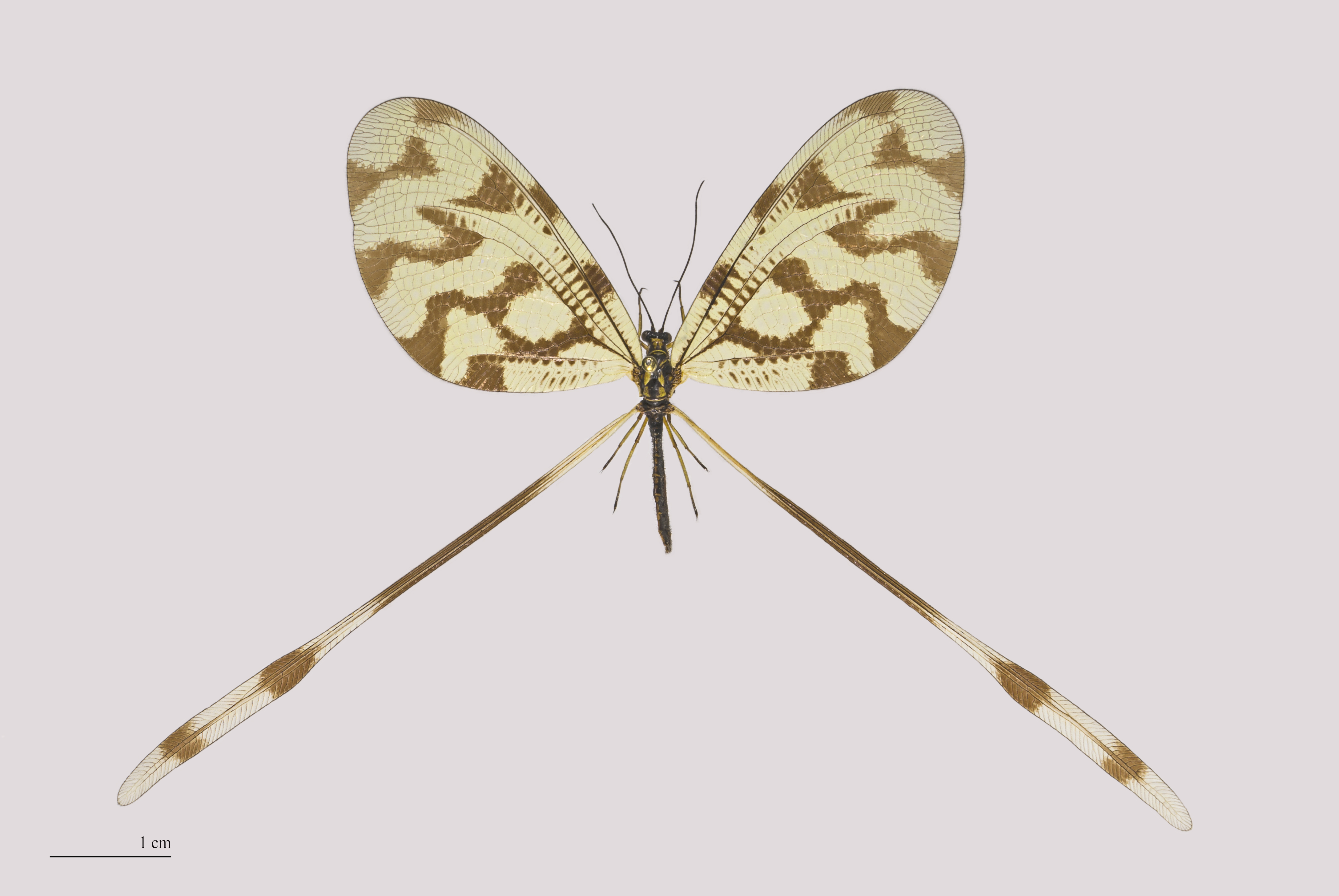 Male specimen Locality: Randina Greece